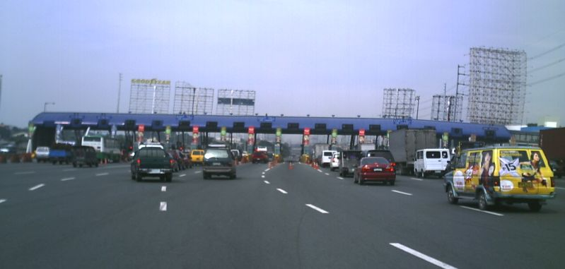 Balintawak Toll Barrier of the North Luzon Expressway located in Caloocan City.